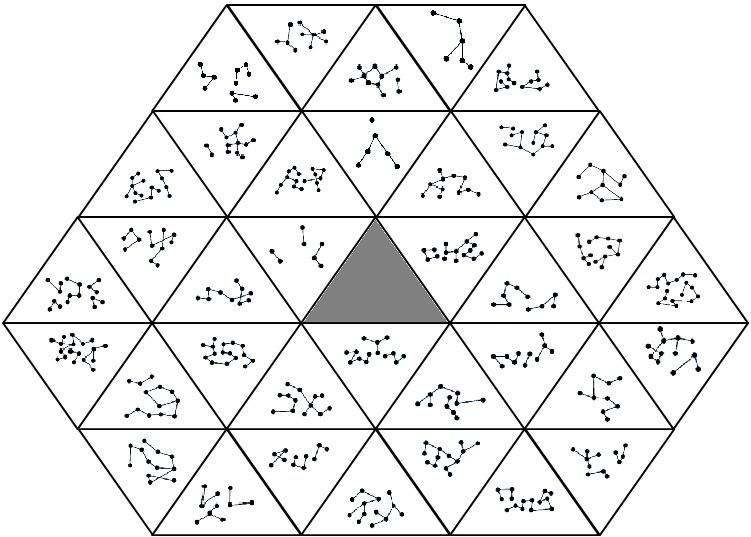 Diagram of Atlantis DHD.